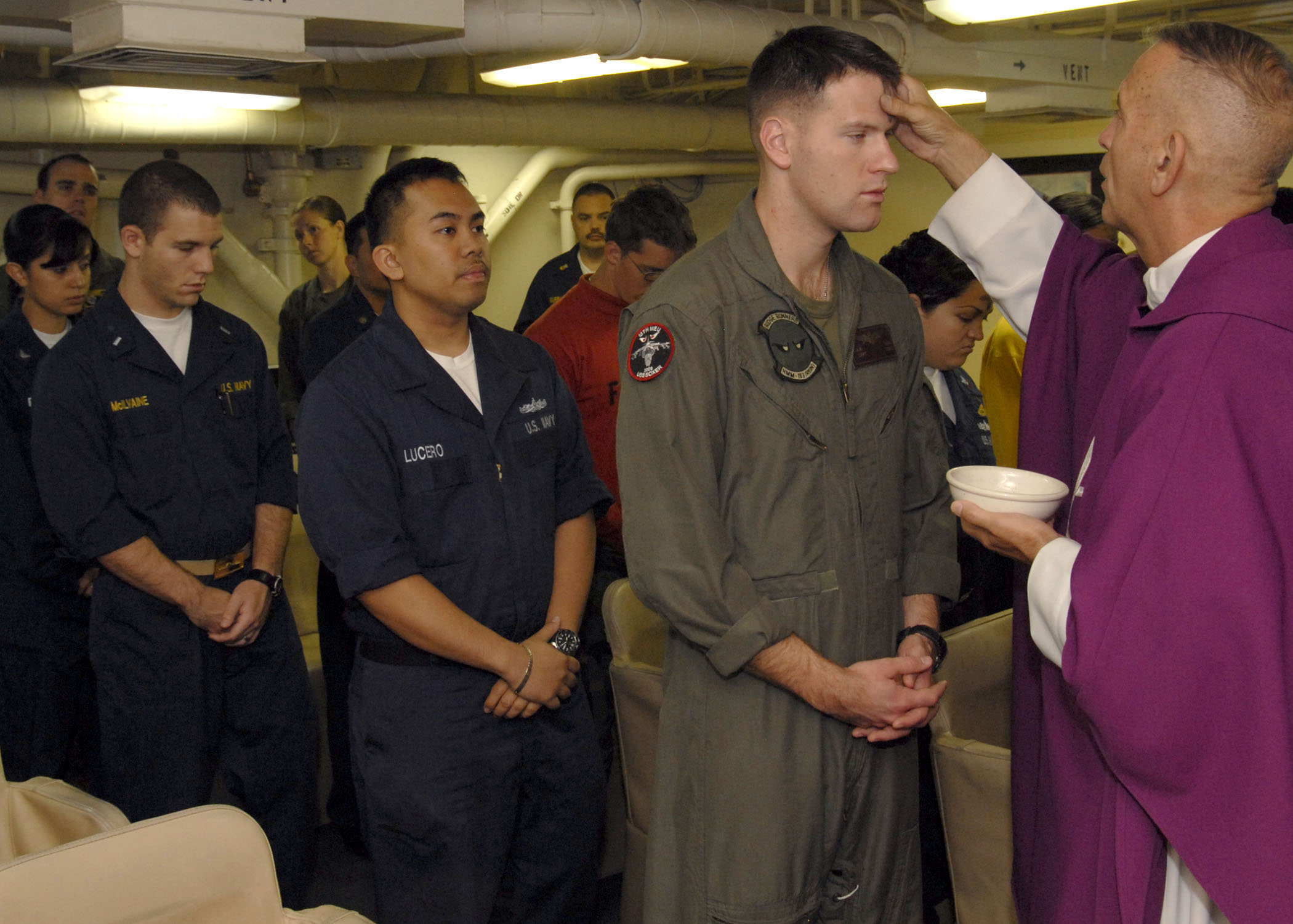 INDIAN OCEAN (Feb. 25, 2009) Sailors and Marines prepare to receive ashes during Ash Wednesday Mass aboard the amphibious assault ship USS Boxer (LHD 4). Boxer and the Boxer Expeditionary Strike Group with embarked 13th Marine Expeditionary Unit are on a scheduled deployment supporting global maritime security. (U.S. Navy photo by Mass Communication Specialist 2nd Class John J. Siller/Released)